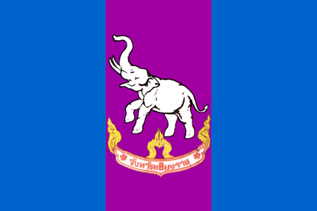 The flag of Chiang Rai Province